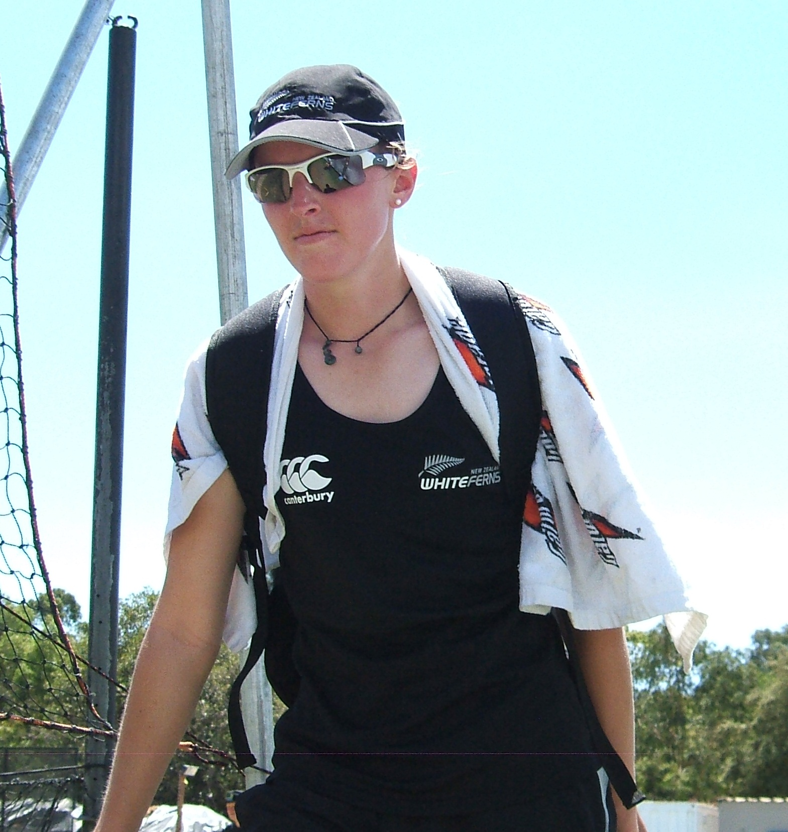 Named person engaging in named action at Adelaide Oval nets/training ground